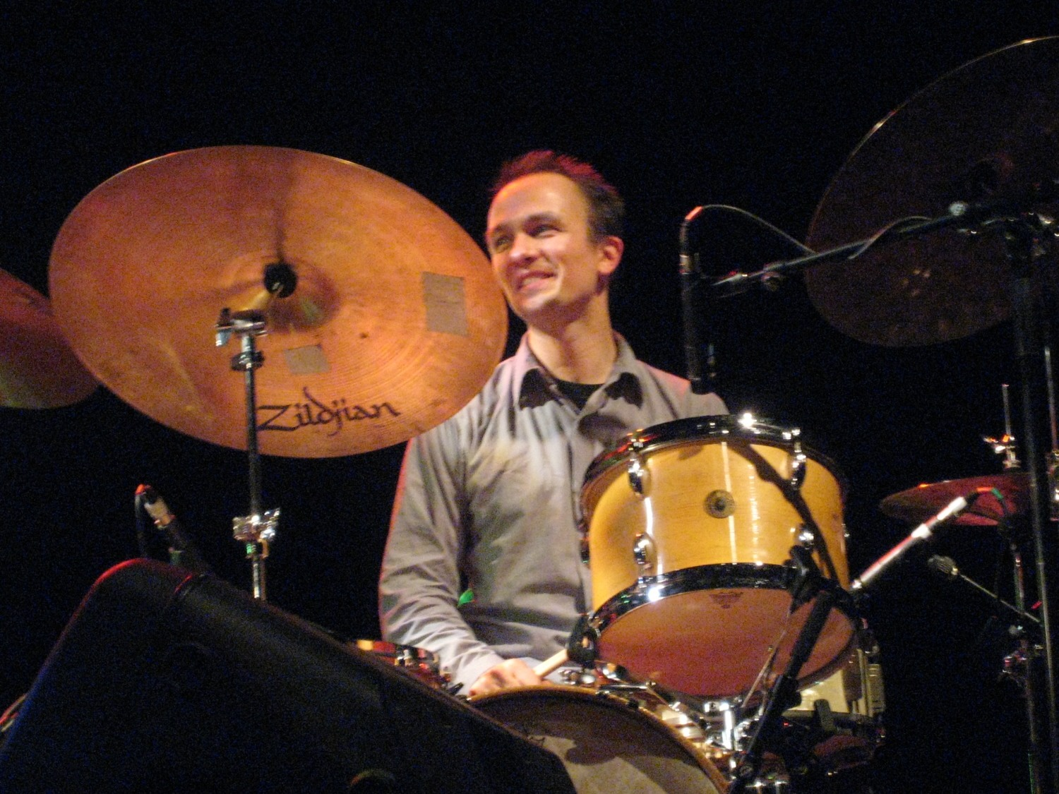 Dylan Howe at the Bloomsbury thearte